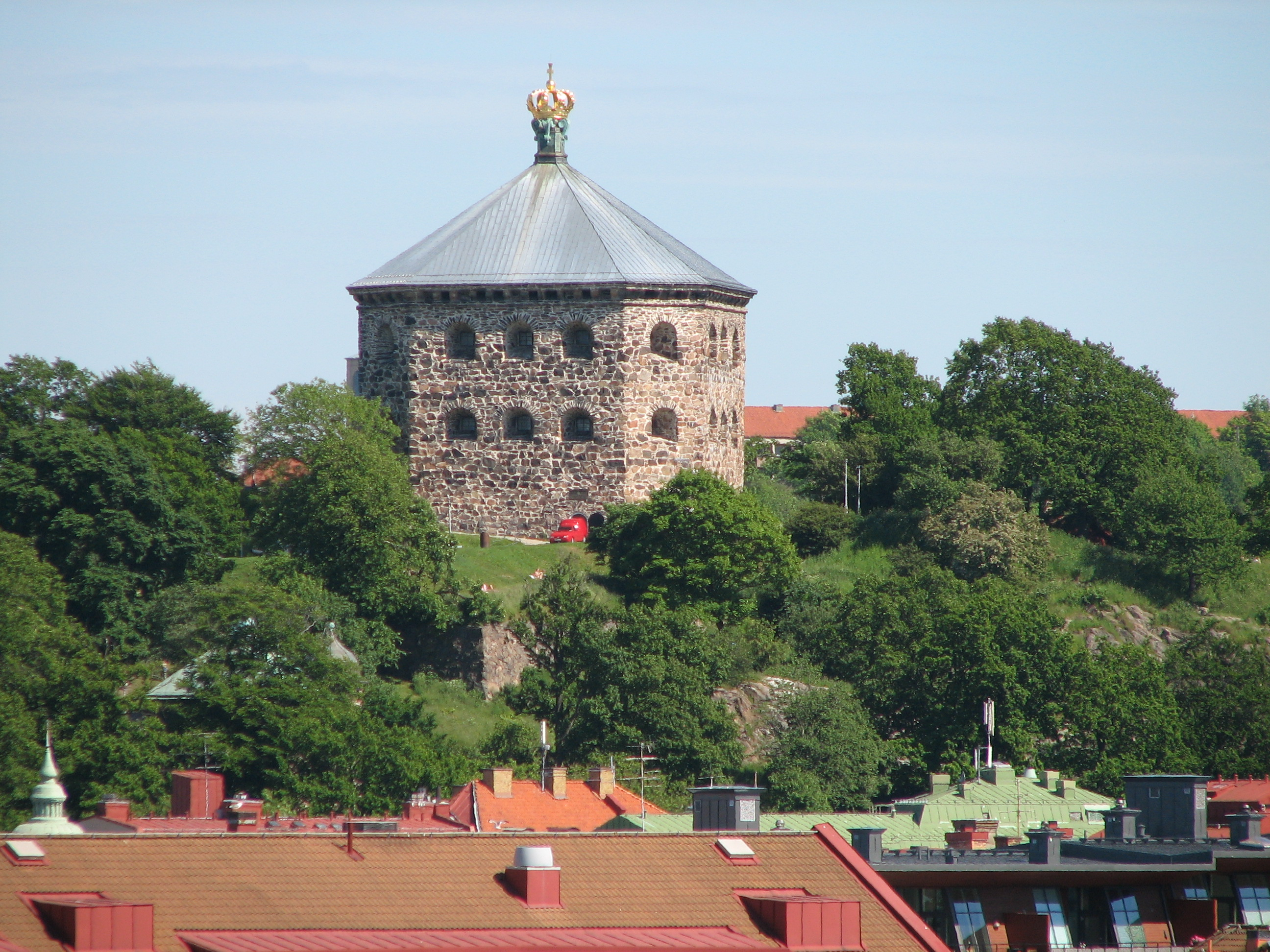 The fortlet Skansen Kronan on a hill in Goteborg.